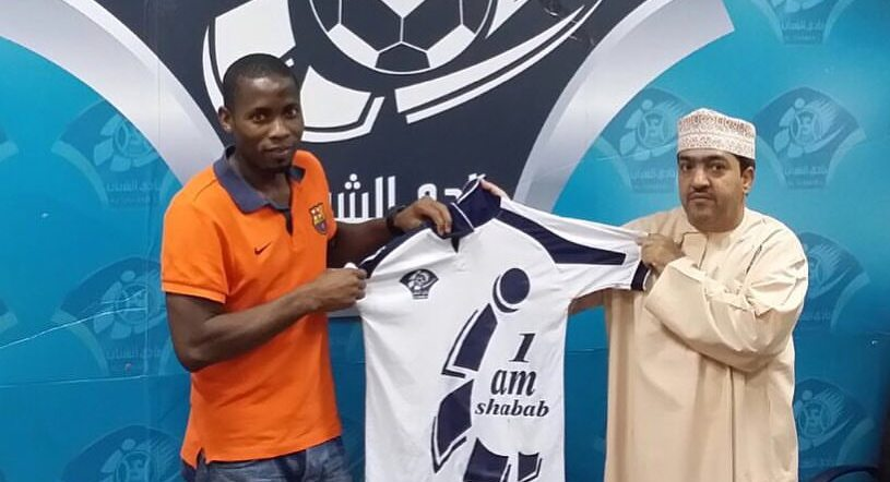 Sidy Keita after signing a contract with Al Shabab Club 19 September 2015 Al Shabab Club, Barka Photographer email id